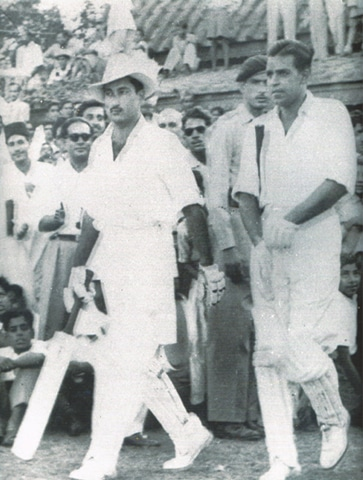 Pakistani cricketers Waqar Hasan (left) and Imtiyaz Ahmed (right) come out to bat during the second test against New Zealand at the Bagh-e-Jinnah, c. 1955.